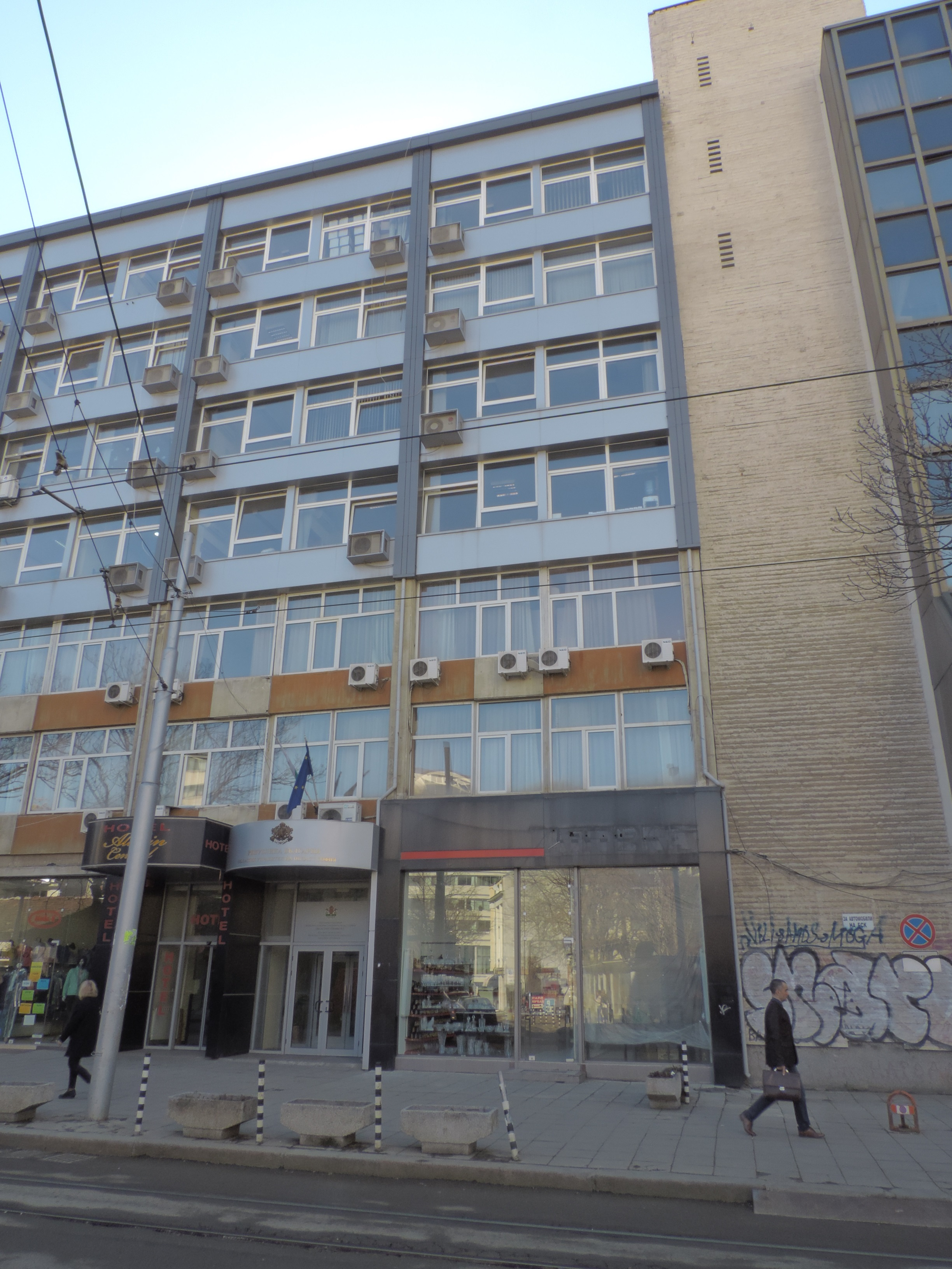 Province Hall of the Province administration of Sofia City Province, 22 Alabin Str., Sofia, Bulgaria